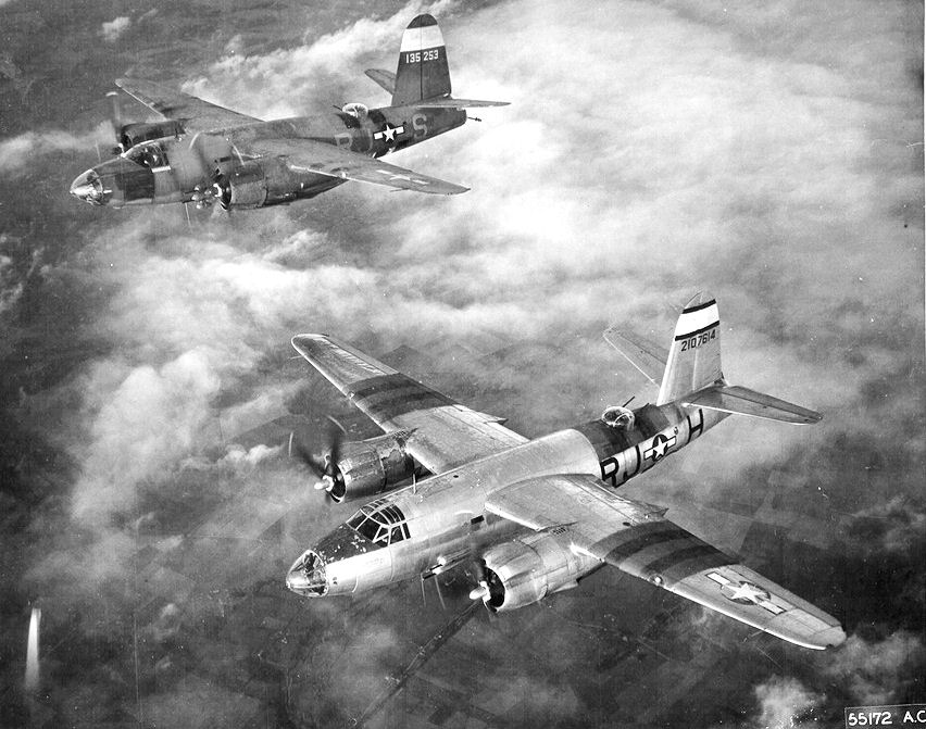 (RJ-H) Named "Lady Luck III" B-26C-45-MO Marauder Serial number 42-107614 454th Bomb Squadron, 323rd Bomb Group, 9th Air Force Lost hydraulics and crew bailed out on December 23,1944 mission. (RJ-S) Named "Black Magic IV" and "Mr. Shorty" B-26C-25-MO Marauder Serial number 41-35253 454th Bomb Squadron, 323rd Bomb Group, 9th Air Force. Taken 6 December 1944